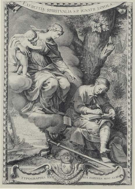 "Exercitia Spiritualia by Ignatius of Loyola" Engraving, 1644, by Gilles Rousselet, Loyola University Museum of Art - Chicago